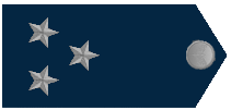 Brazilian Air Force Major-Brigadier insignia.